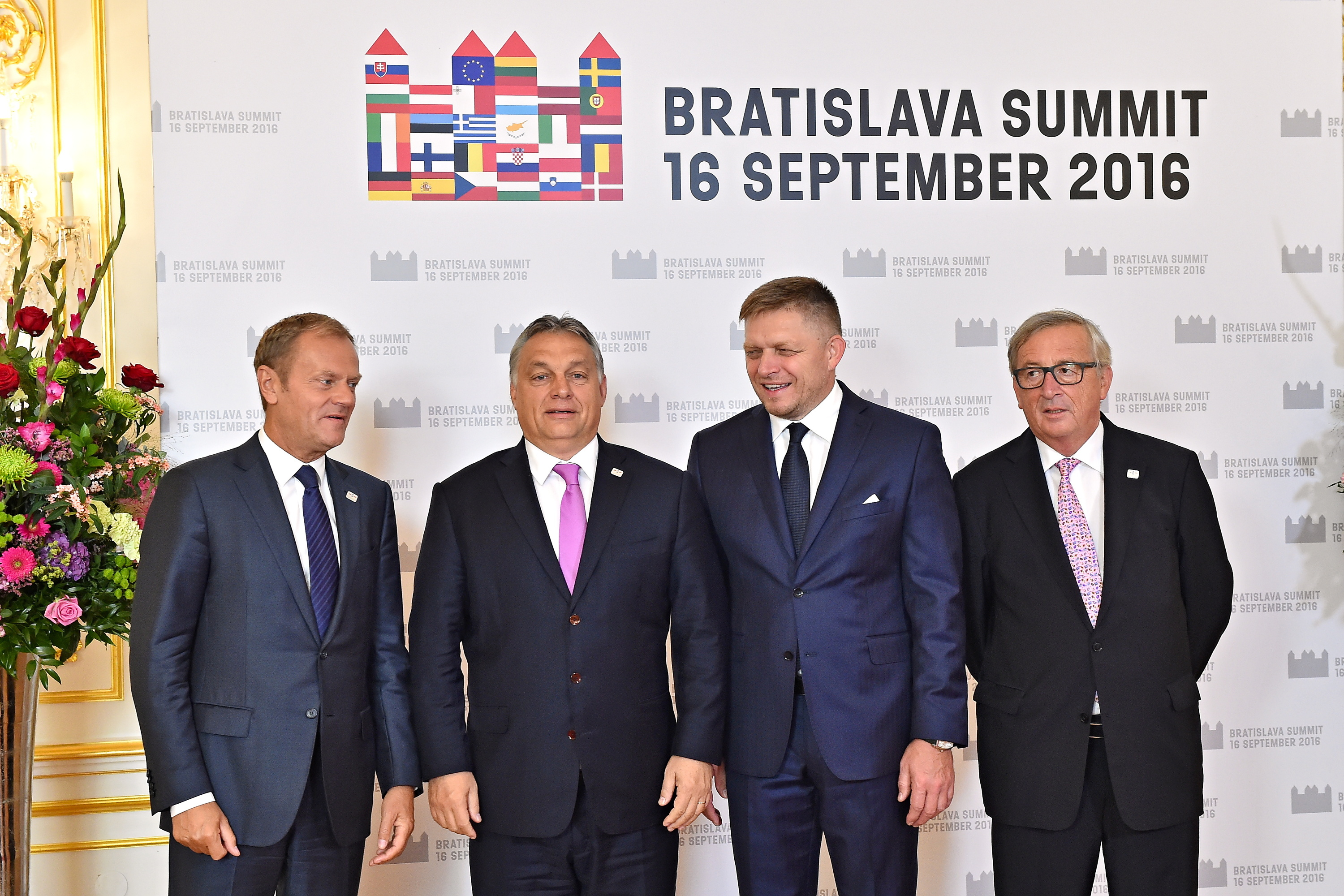 HANDSHAKE - BRATISLAVA SUMMIT 16. SEPTEMBER 2016. Donald Tusk, European Council, President - Viktor Orbán, Hungary, Prime Minister - Róbert Fico, Slovakia, Prime Minister- Jean-Claude Juncker, European Commission, President Photo Rastislav Polak